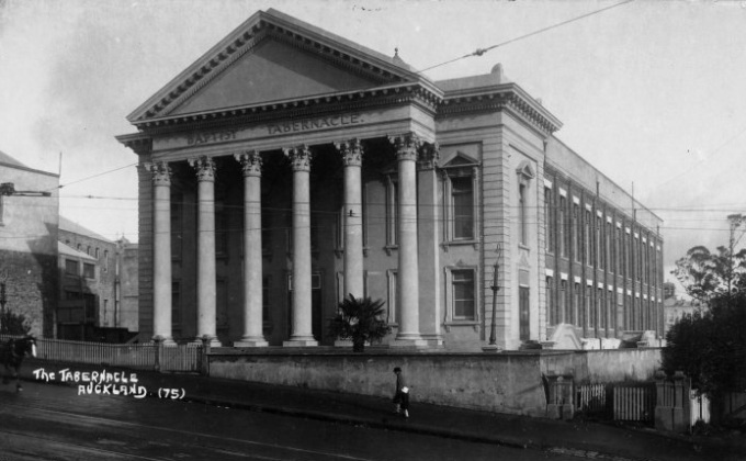 The Baptist Tabernacle on Queen Street in Auckland City, New Zealand in ca 1910. This Renaissance Revival architecture building still stands near the K'Road intersection, and is still used as a church. New Zealand Historic Places Trust Register number: 7357. Extended information on origin webpage reads: Baptist Tabernacle, Queen Street, Auckland [ca 1910] / Reference number: 1/2-C-005723-F 1 b&w original negative(s). Film copy negative / Part of Morrison, Mr :Postcards of Auckland and other areas PAColl-6408) Photographic Archive / Scope and contents: Baptist Tabernacle, Queen Street, Auckland. circa 1910. Photographer unidentified.